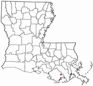 Map of Louisiana, dot on Chauvin